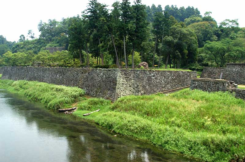 Hitoyohi castle